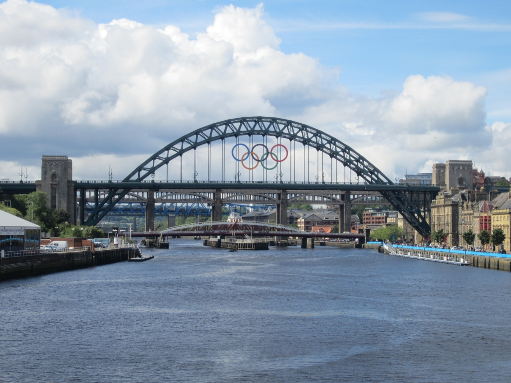 Looking upstream from the Gateshead Millennium Bridge